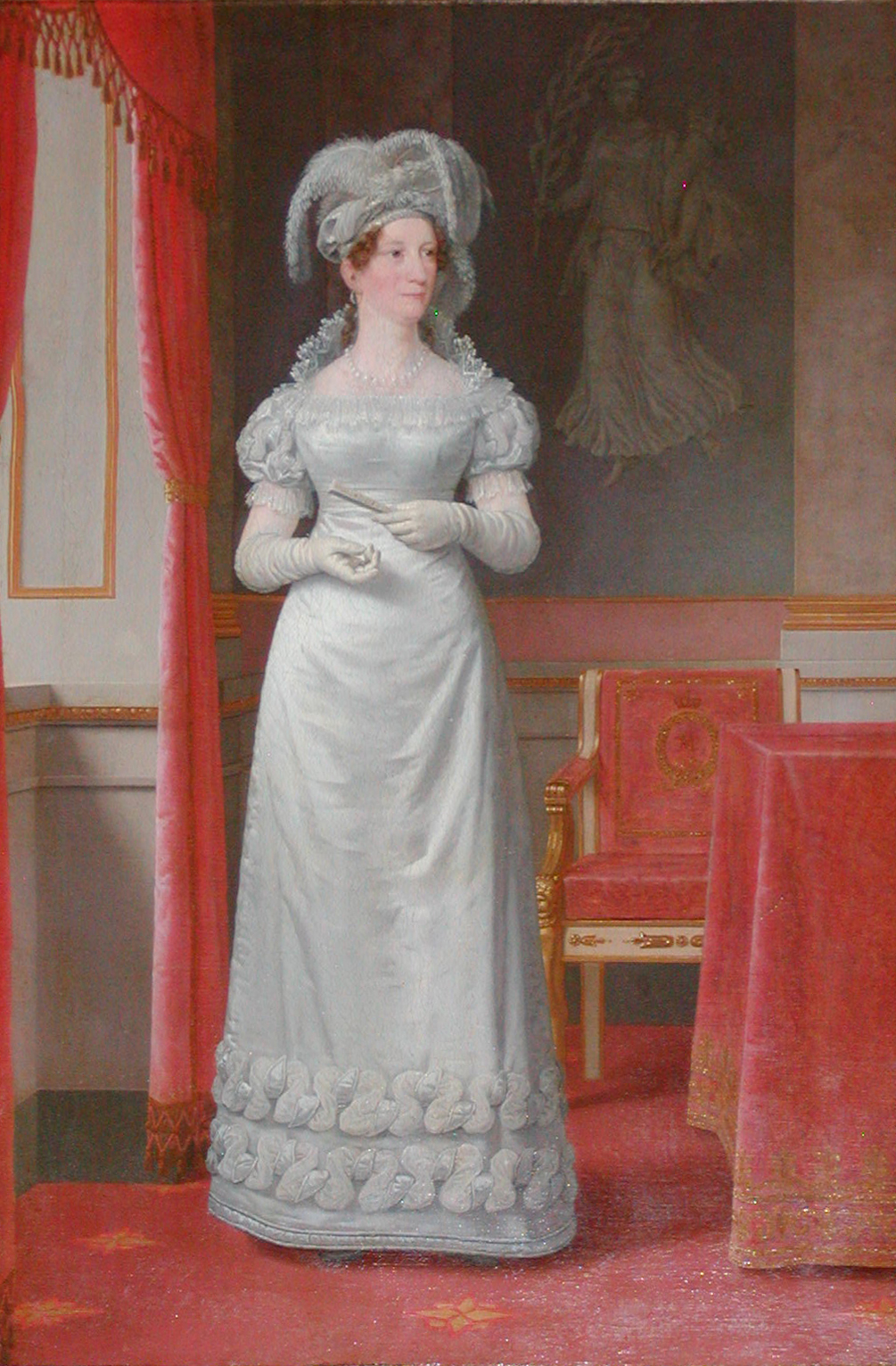 Portrait of Marie Sophie of Hesse-Kassel (1767-1852), Queen consort of Denmark